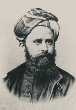 Daniele Comboni, with arabic turban, photo from 1873